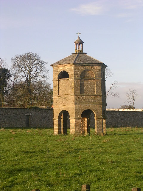 The Dovecote, Forcett Park, North Yorkshire; a grand structure, designed in 1740 by Dan. Garnett.